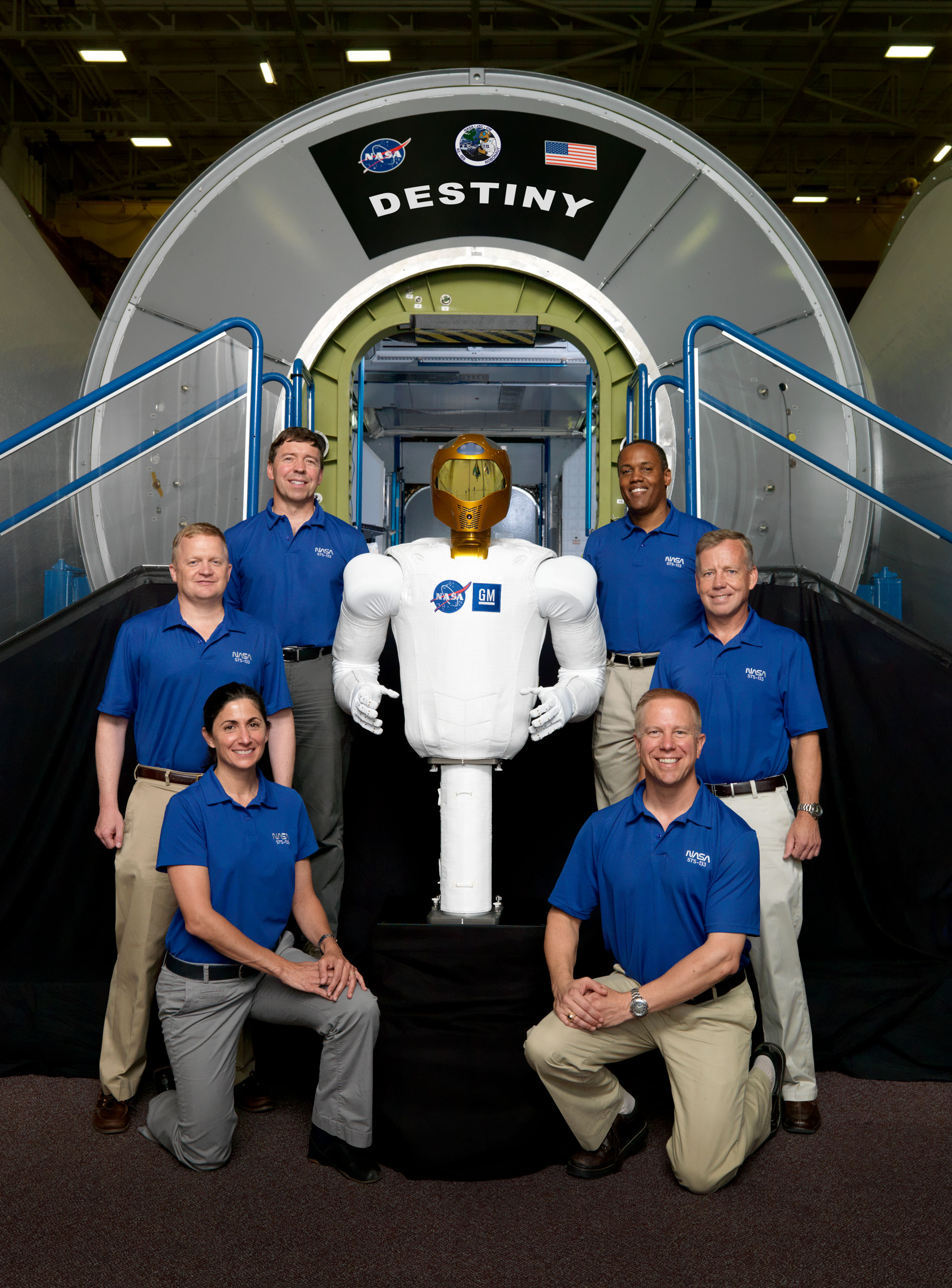 NASA's Robonaut 2, or R2 for short, who will hitch a ride with the STS-133 crew members to travel to the International Space Station for a tour of duty beginning this fall, "poses" near a Destiny lab trainer with the crew during a break in training. Clockwise from lower right, R2 is flanked by NASA astronauts Tim Kopra and Nicole Stott, both mission specialists; Eric Boe, pilot; Michael Barratt and Alvin Drew, both mission specialists, and Steve Lindsey, commander.